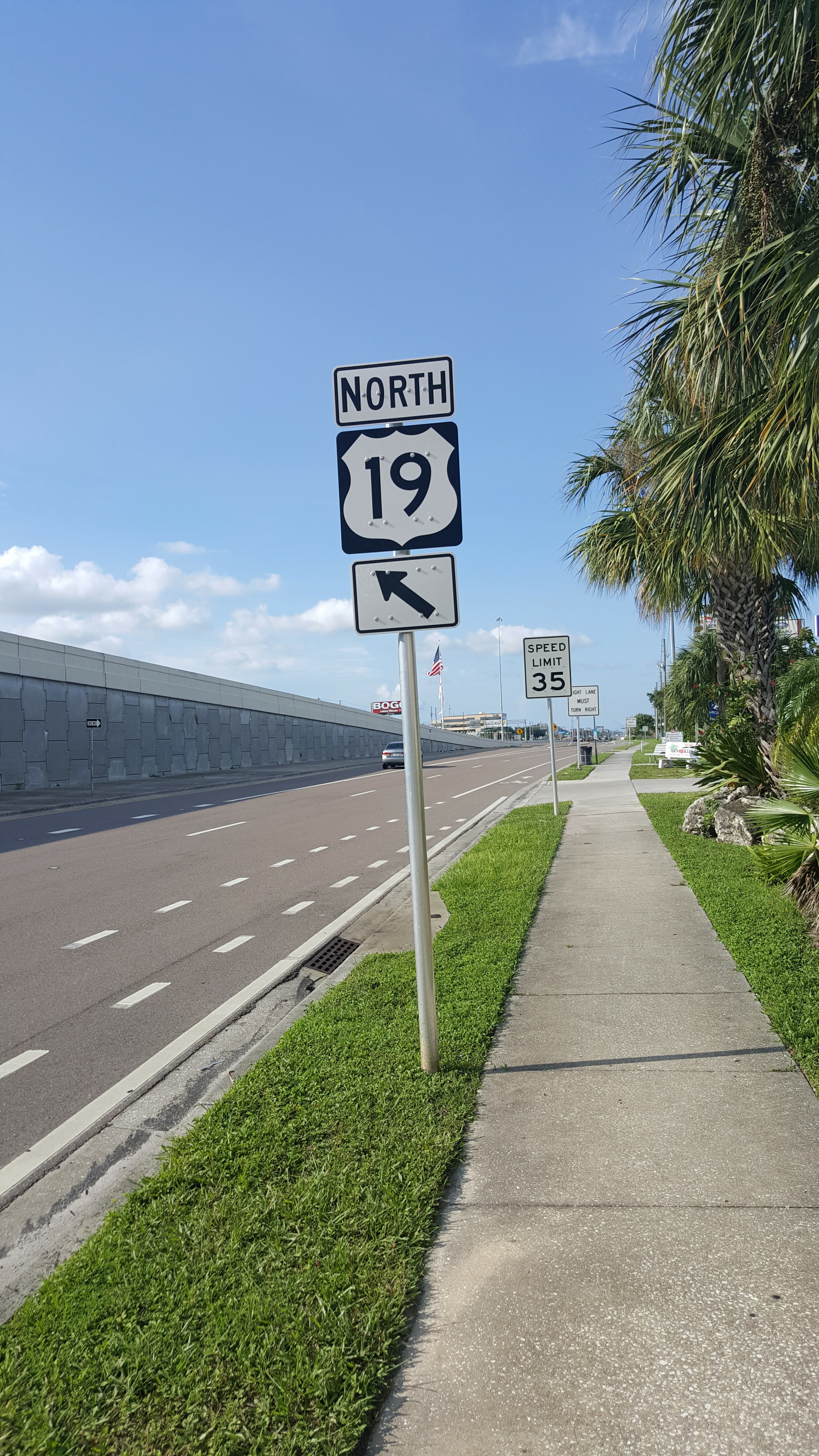 U.S. Route 19 sign in Clearwater, FL